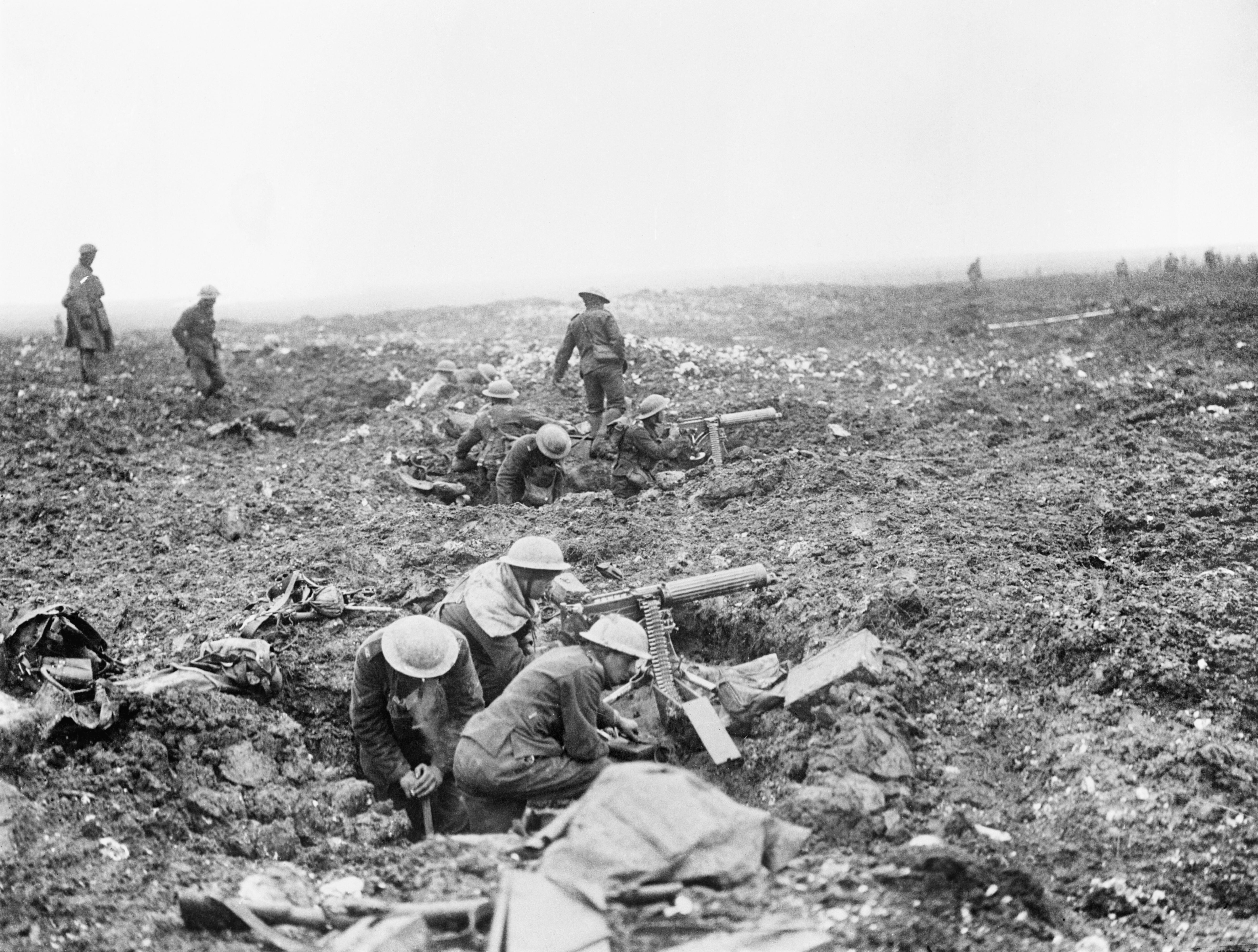 Canadian machine gunners dig themselves in, in shell holes on Vimy Ridge. This shows squads of machine gunners operating from shell-craters in support of the infantry on the plateau above the ridge.